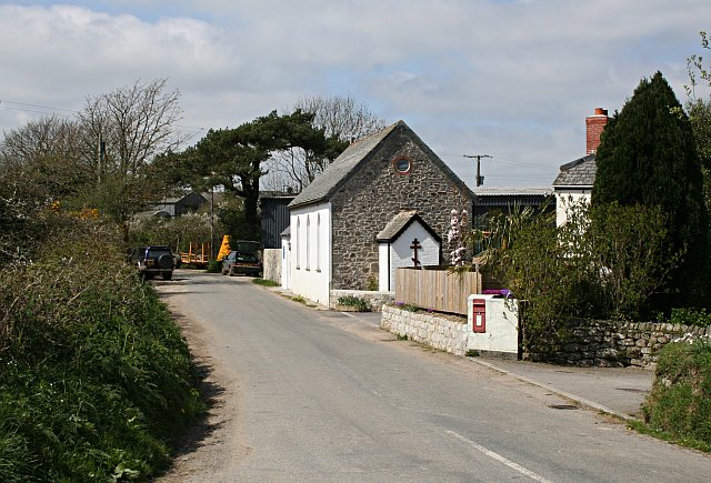 Chapel at Laity Moor. This old Methodist chapel is now used as a Greek Orthodox Church - hence the cross!